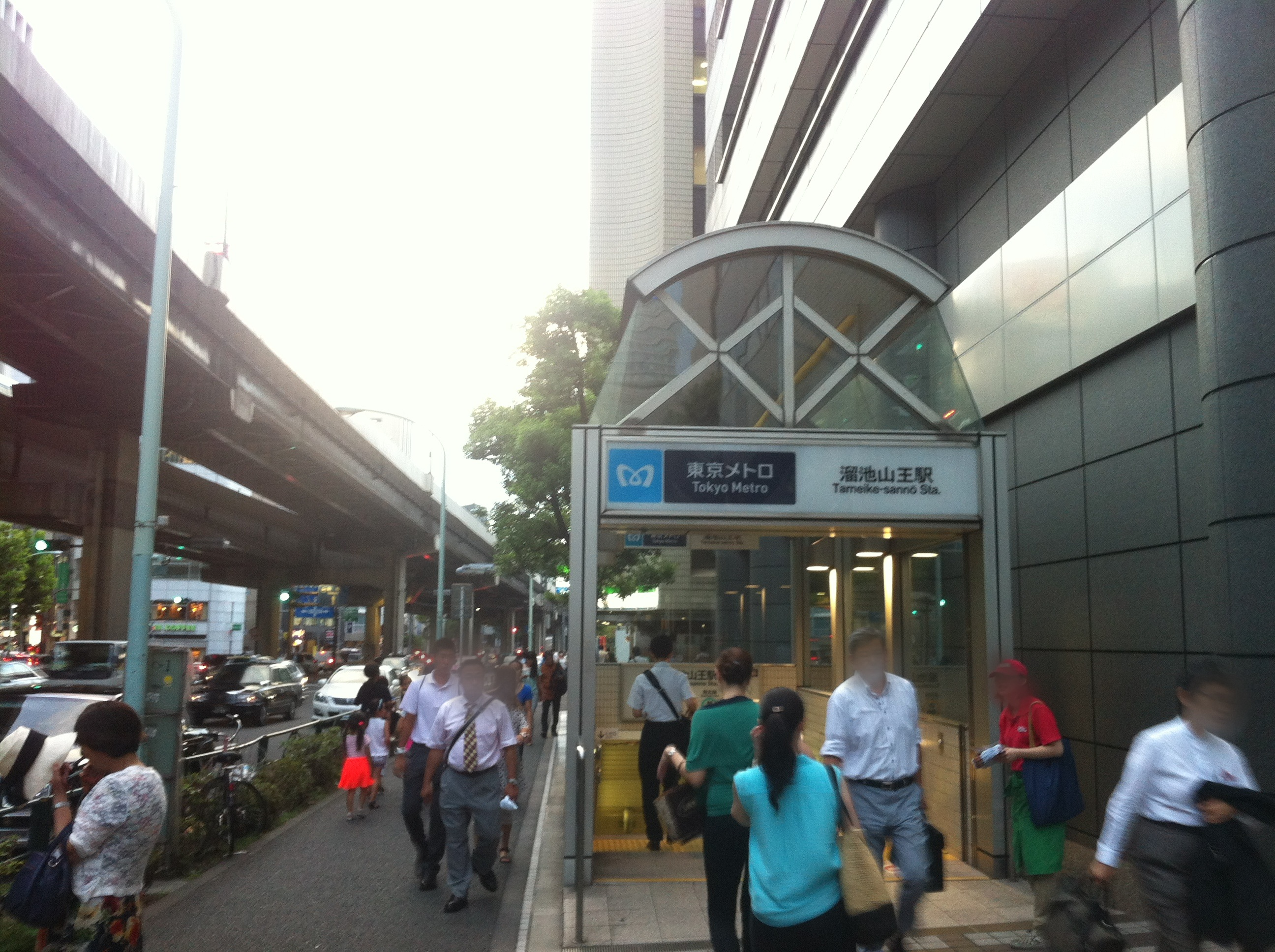 Exit No. 13 at Tameike-Sannō Station in Tokyo